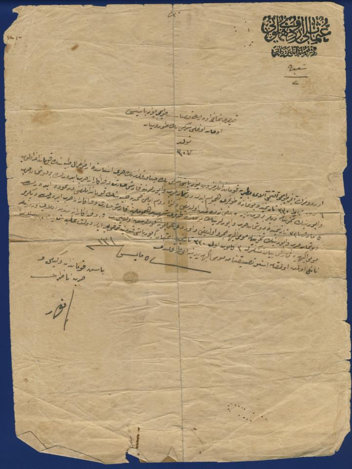 Sarkis Torossian was a decorated Ottoman captain of Armenian descent who fought in the Gallipoli Campaign and according to his memoirs, was the first person to sink a British battleship. After the Armenian Genocide however, when most of his family was massacred, he switched sides and joined the fight against Ottoman Empire. He later moved to the United States where he wrote and published his memoirs, From Dardanelles to Palestine: a true story of five battle fronts of Turkey. His story has led to a debate in Turkey where Turkish historians have discredited the authenticity of his memoirs and with some historians claiming he never existed. In anticipation of the publication of Torosian's memoirs in Turkey by Ayhan Aktar, Torosian's descendants were discovered by local historian Paul Vartan Sookiasian. From there, Taner Akçam interviewed Torosian's granddaughter who described in detail about her grandfather's life. Enver Pasha also awarded Torossian with Osmanlı Devleti harp madalyası (Ottoman State War Medal) with a letter of appreciation above.